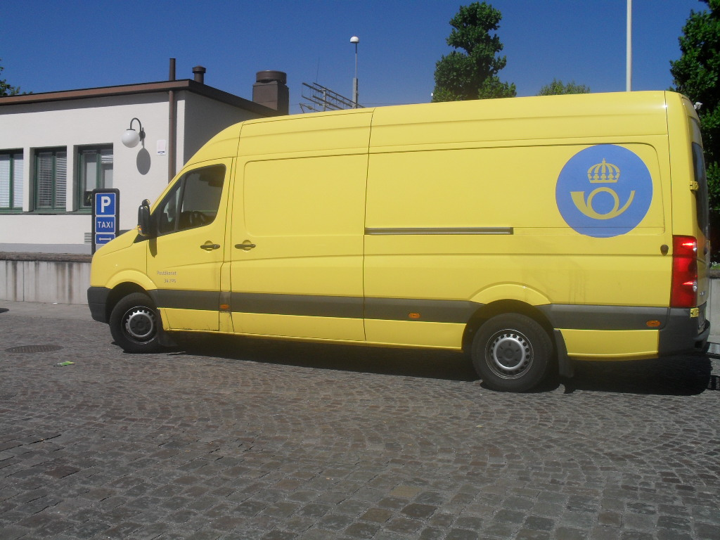 A Volkswagen Crafter of the swedish post.